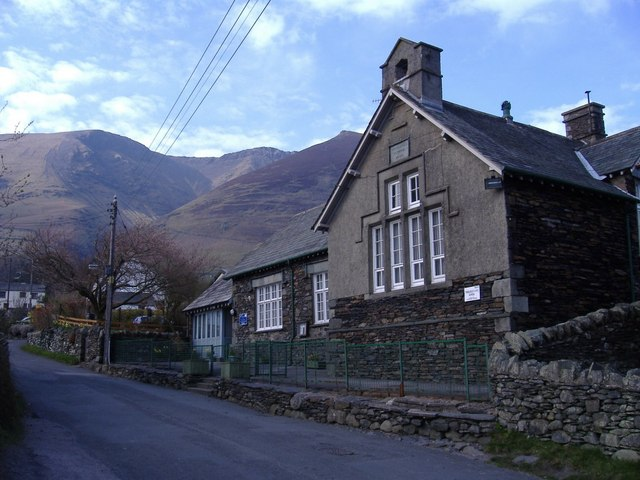 Threlkeld school A Church of England primary school, with Blencathra as a backdrop.